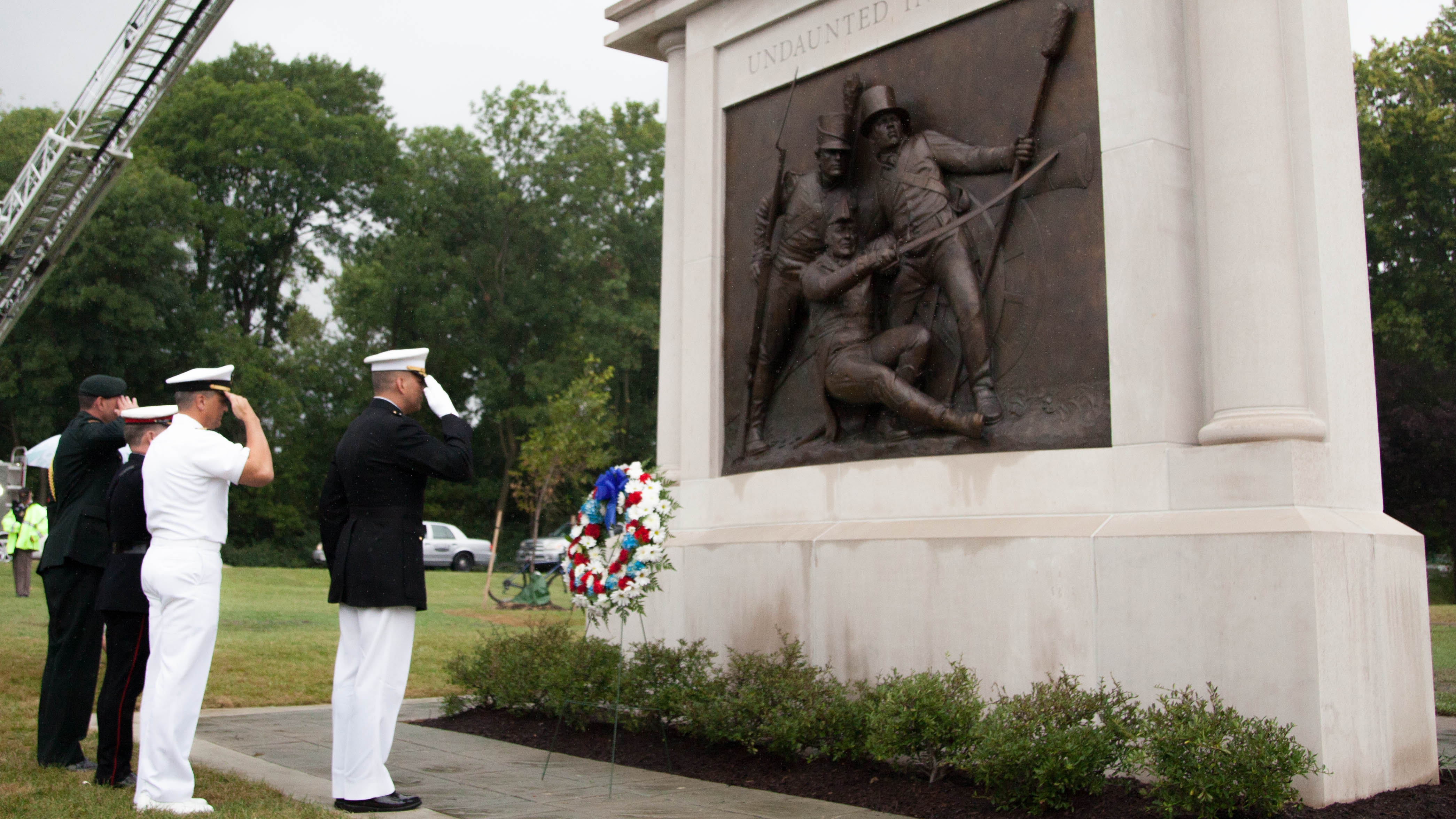 The “Undaunted in Battle” memorial to the Battle of Bladensburg, designed and sculpted by Joanna Blake, was dedicated at Bladensburg, Maryland, Aug. 23, 2014. The monument features a bronze sculpture of the end of the battle. It depicts a wounded Commodore Joshua Barney, commander of the Chesapeake Flotilla, Charles Ball, a freed slave and flotilla man, and an unnamed Marine, in honor of the Marines who fought to the bitter end trying to repel British forces.